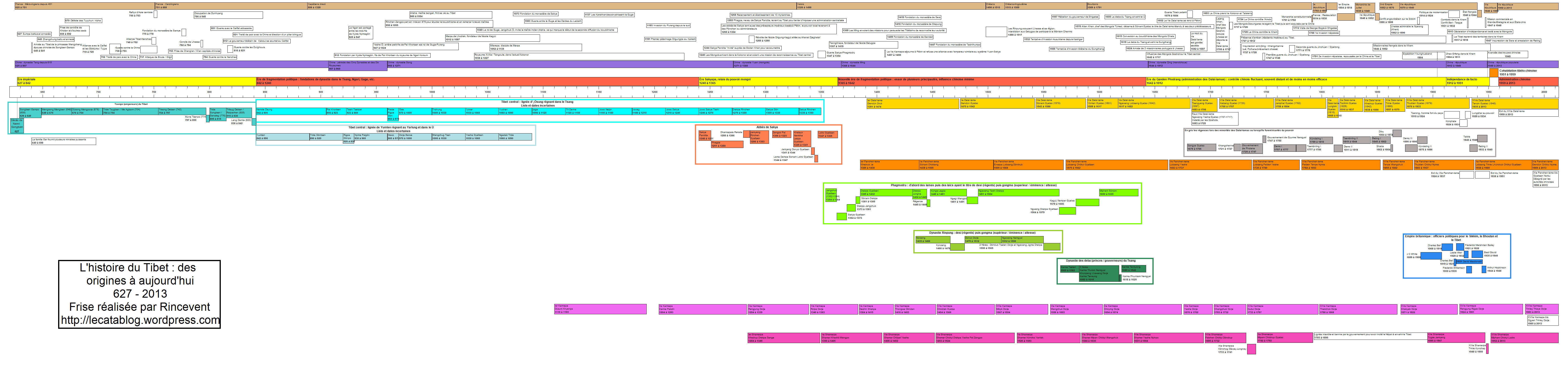 Historical timeline of Tibet (627 - 2013)